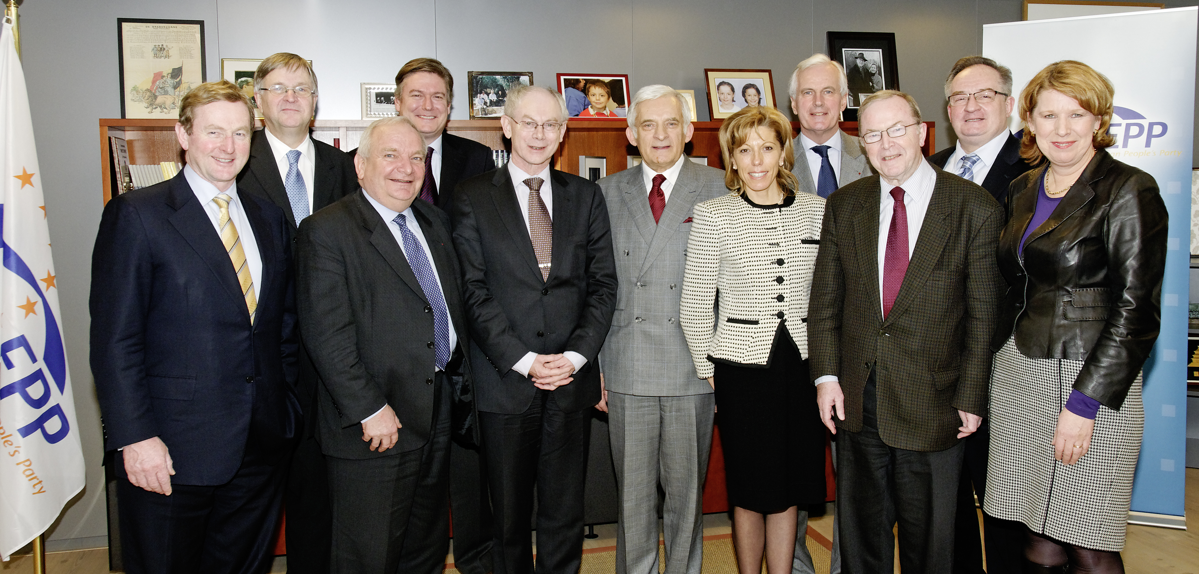 EPP Presidency. From the left: Enda Kenny (Ireland, FG), Peter Hintze (Germany, CDU), Joseph Daul (France, UMP), EPP Secretary General Antonio Lopez-Isturiz (Spain, PP), Herman Van Rompuy (Belgium, CD&v), Jerzy Buzek (Poland, PO), Rumiana Jeleva (Bulgaria, GERB), Michel Barnier (France, UMP), EPP President Wilfried Martens, Jacek Saryusz-Wolski (Poland, PO) and Corien Wortmann-Kool (Netherlands, CDA)